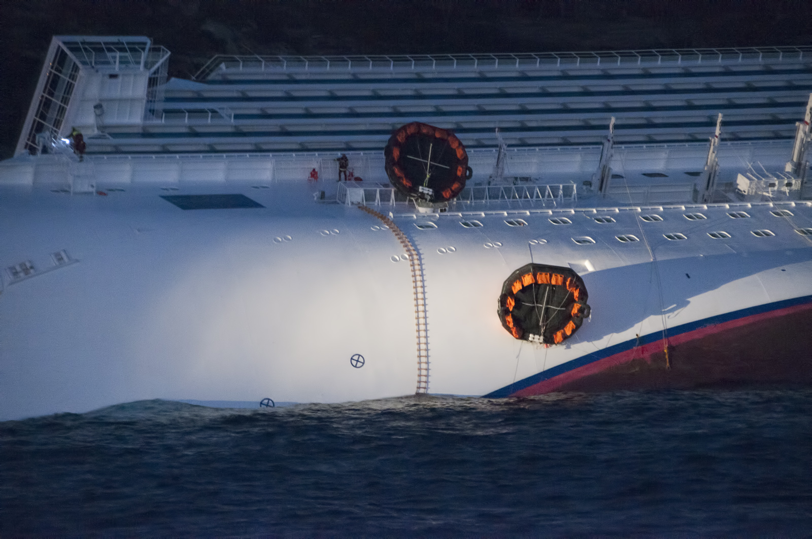 Collision of Costa Concordia - Rescuers climb by a rope ladder at the bow to get inside the ship to help the survivors still trapped.